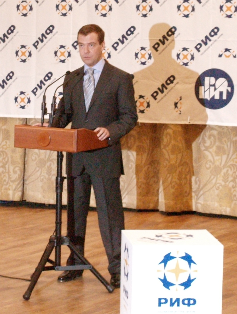 Russian president-elect Dmitry Medvedev opens Russian Internet Forum — 2008